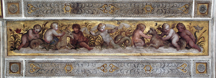 Este Castle of Ferrara, decoration in the Games Room